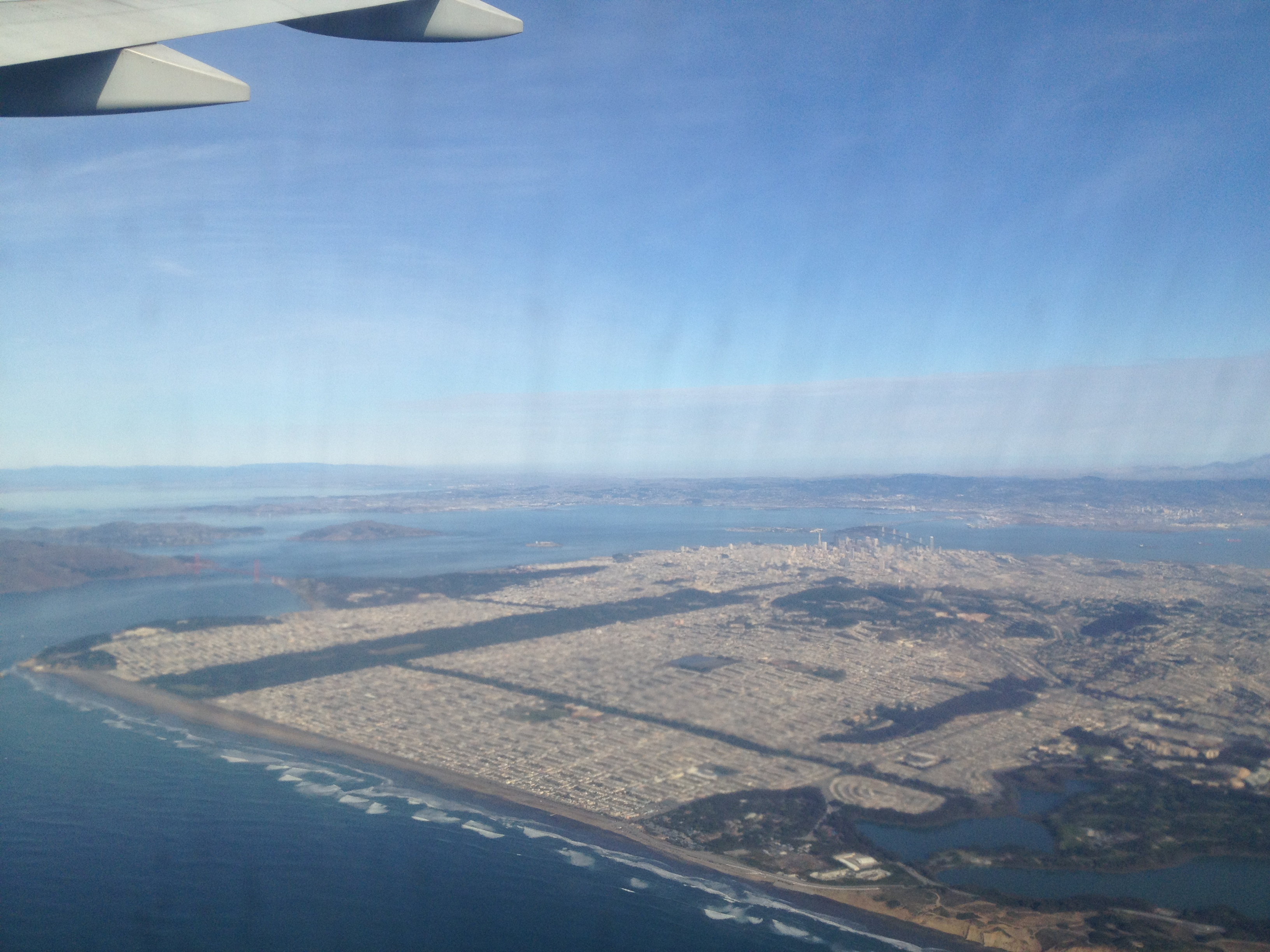 San Francisco 20111223